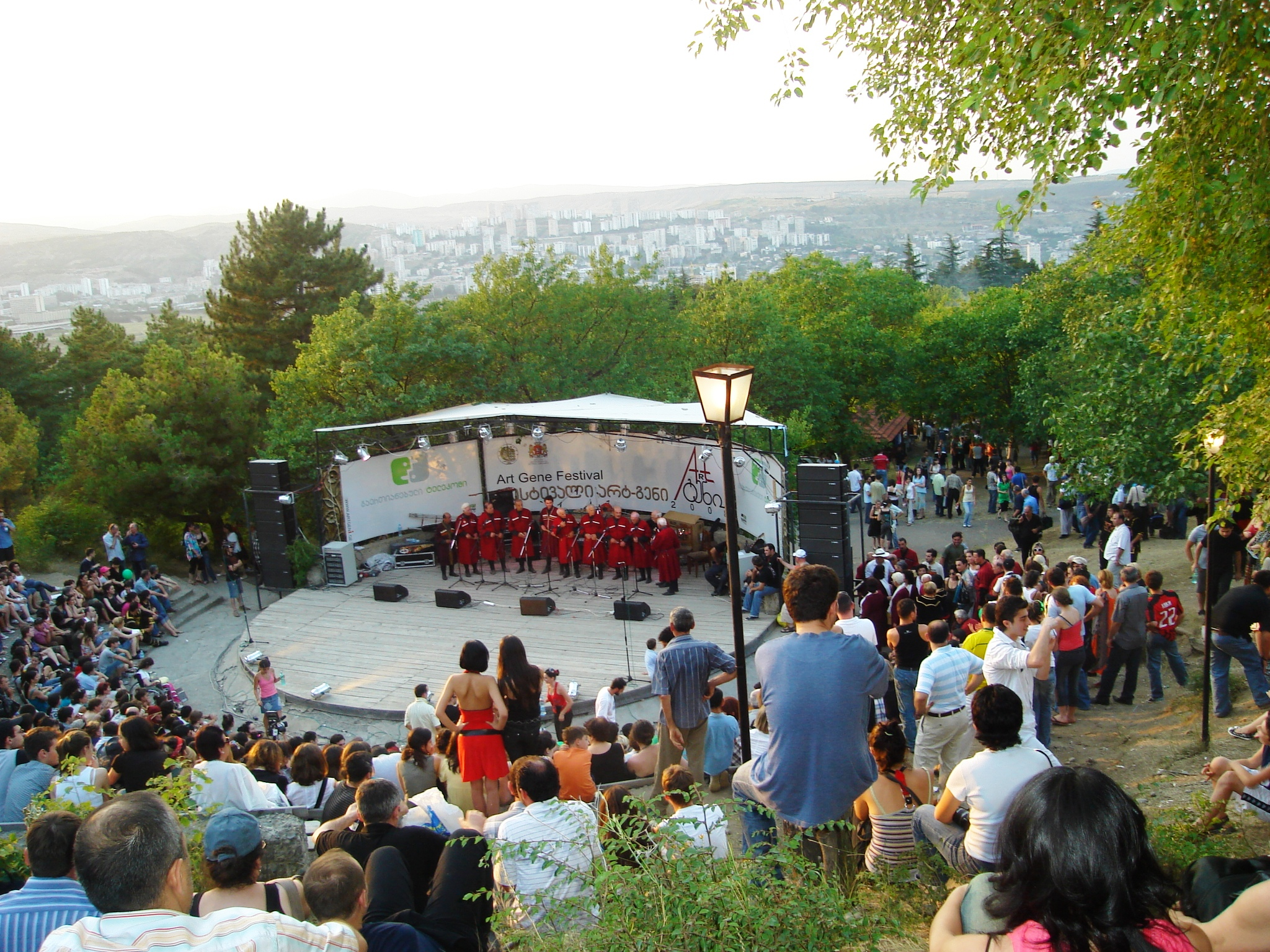 A folk ensemble from the province of Guria at the Art-Gene festival. Open-Air Ethnogarphic Museum, Tbilisi, Georgia